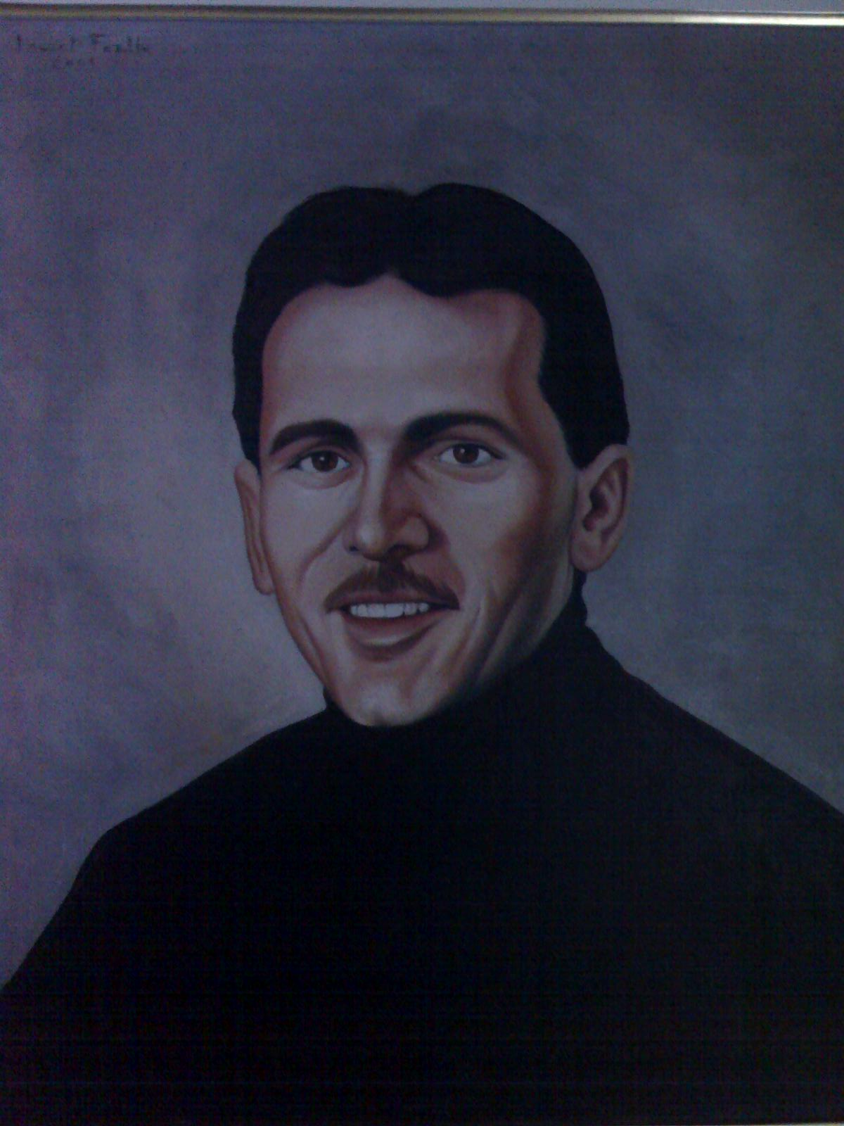 Photo of Ragip Jashari 2001 uploaded for Wikipedia articles about him.